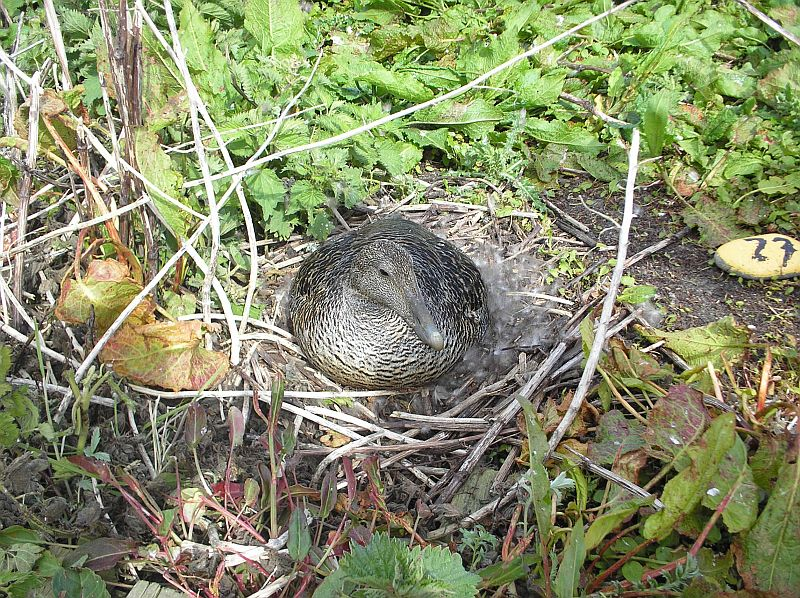 Female Common Eider taken by me on the Farne Islands, May 2006